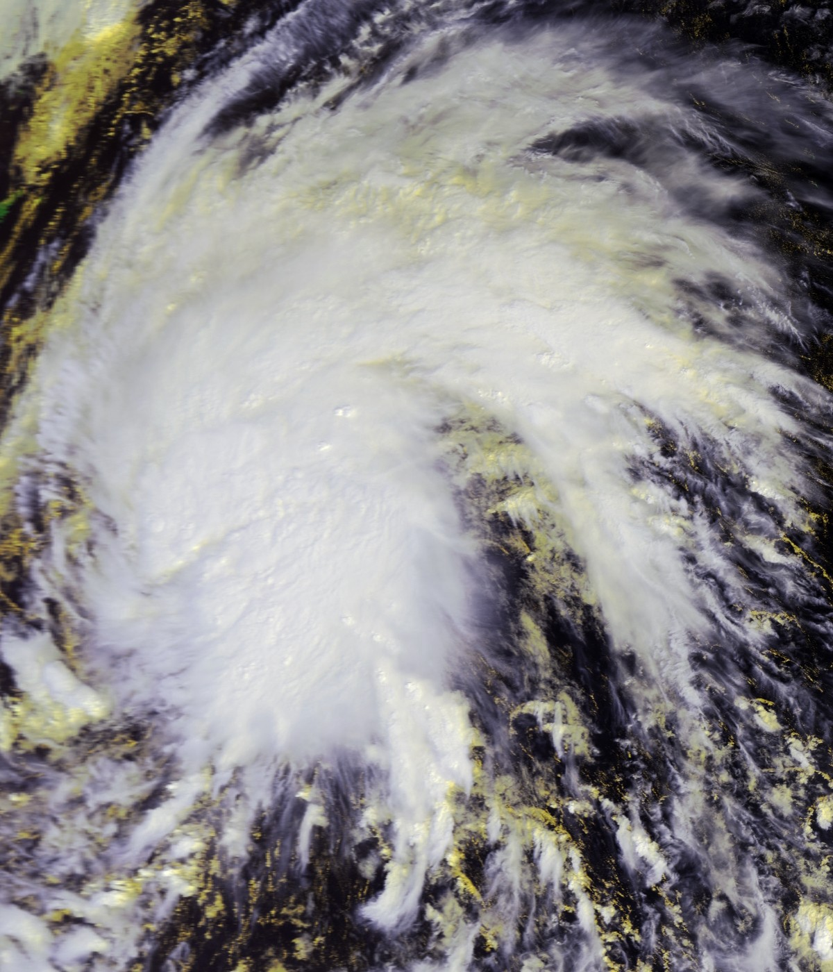 Tropical Storm Faxai on October 26 at approximately 0008 UTC. This image was produced from data from MetOp-2/A, provided by NOAA.